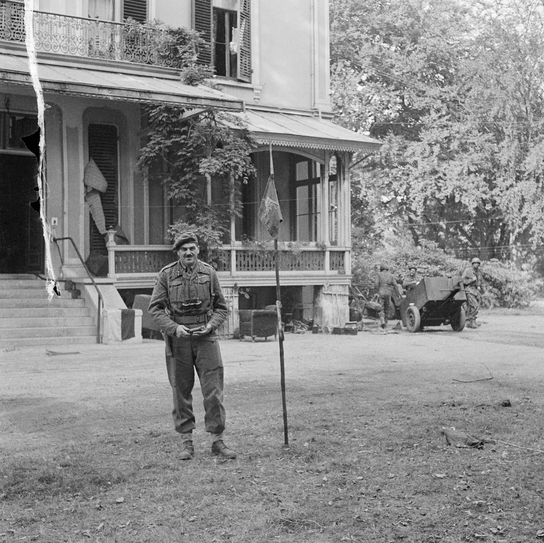 IWM caption : OPERATION 'MARKET GARDEN' (THE BATTLE FOR ARNHEM) : 17 - 25 SEPTEMBER 1944. Major-General Roy Urquhart DSO and Bar (leader of the 1st British Airborne Division during the Arnhem Operation) plants the Airborne flag outside his headquarters (Hotel Hartenstein), the last British stronghold in the Arnhem area before the evacuation